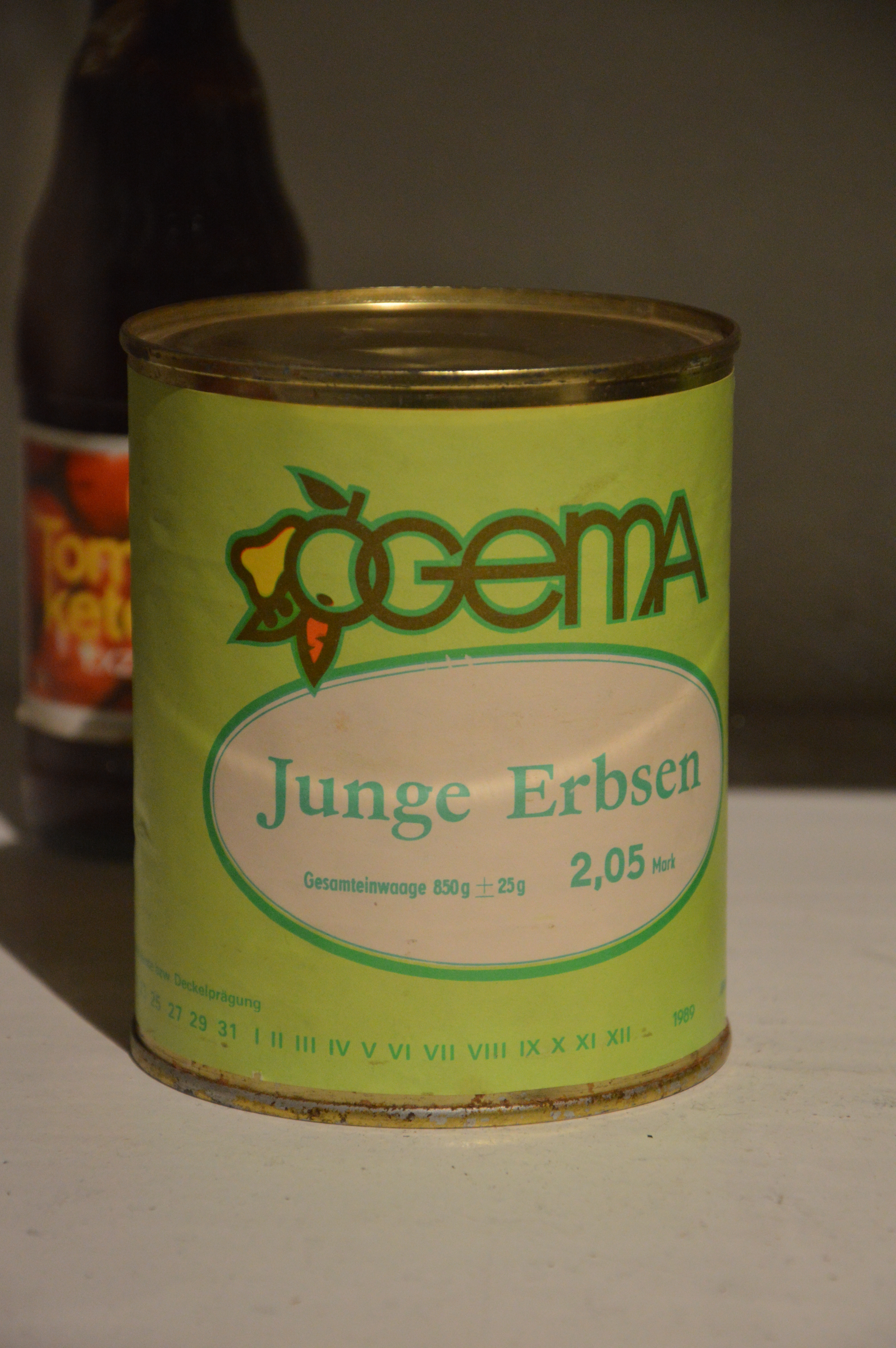 An Ogema brand can of peas on display as part of the "Alltag in der DDR" (Everyday life in the GDR) exhibit of the Museum in the Kulturbrauerei, Berlin. VEB Ogema Obst- und Gemüse-Verarbeitungsbetrieb Magdeburg I submit that the logos on the label is too simple to allow copyright.